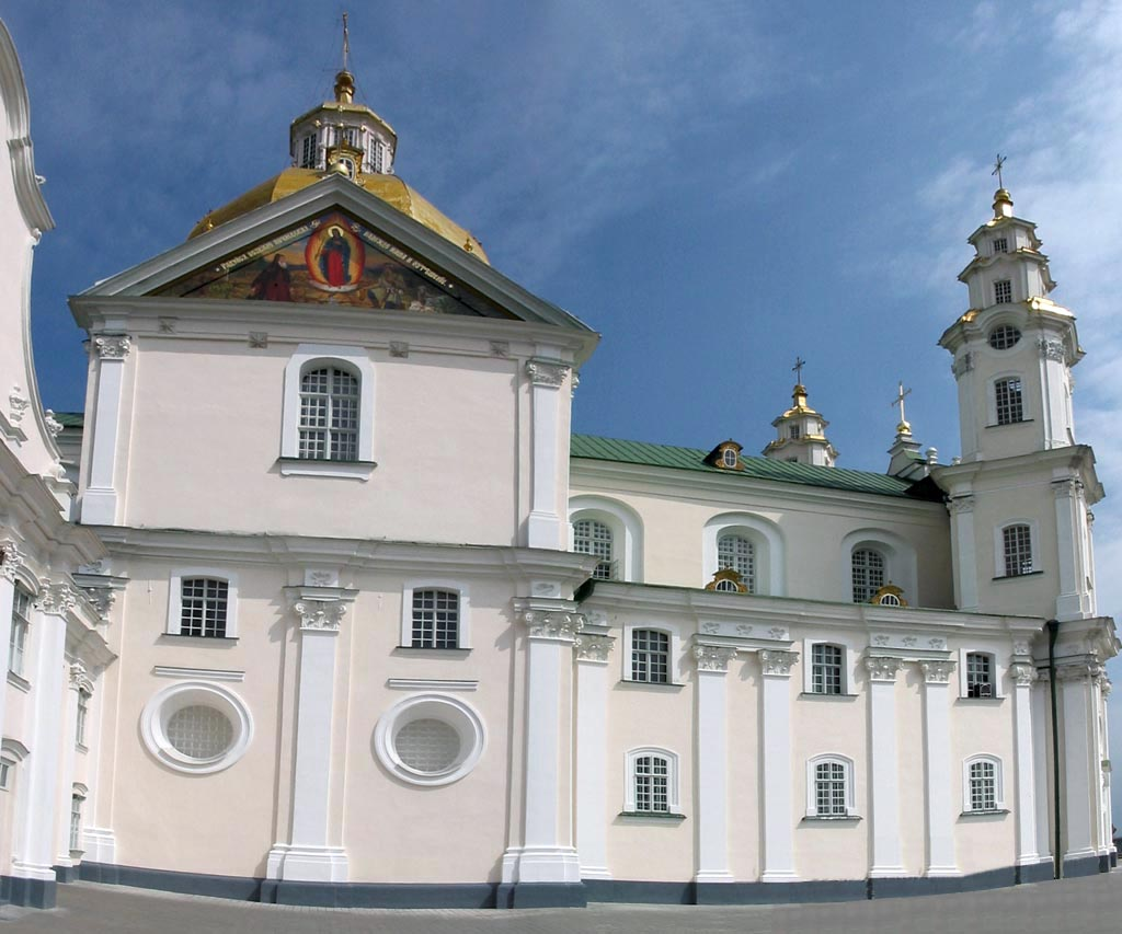 Dormition Cathedral